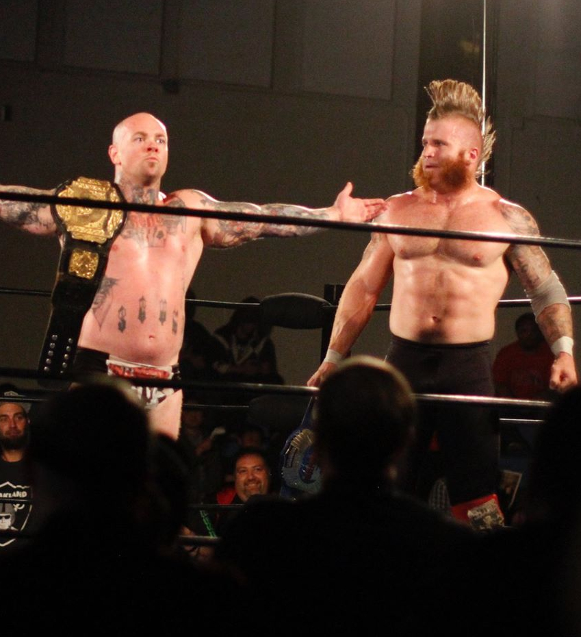 The Reno Scum are victoriuous.